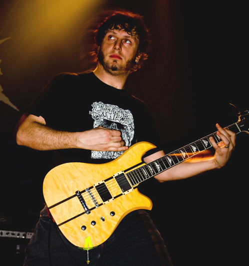 Zac Joe from the American band Cephalic Carnage, 2009.